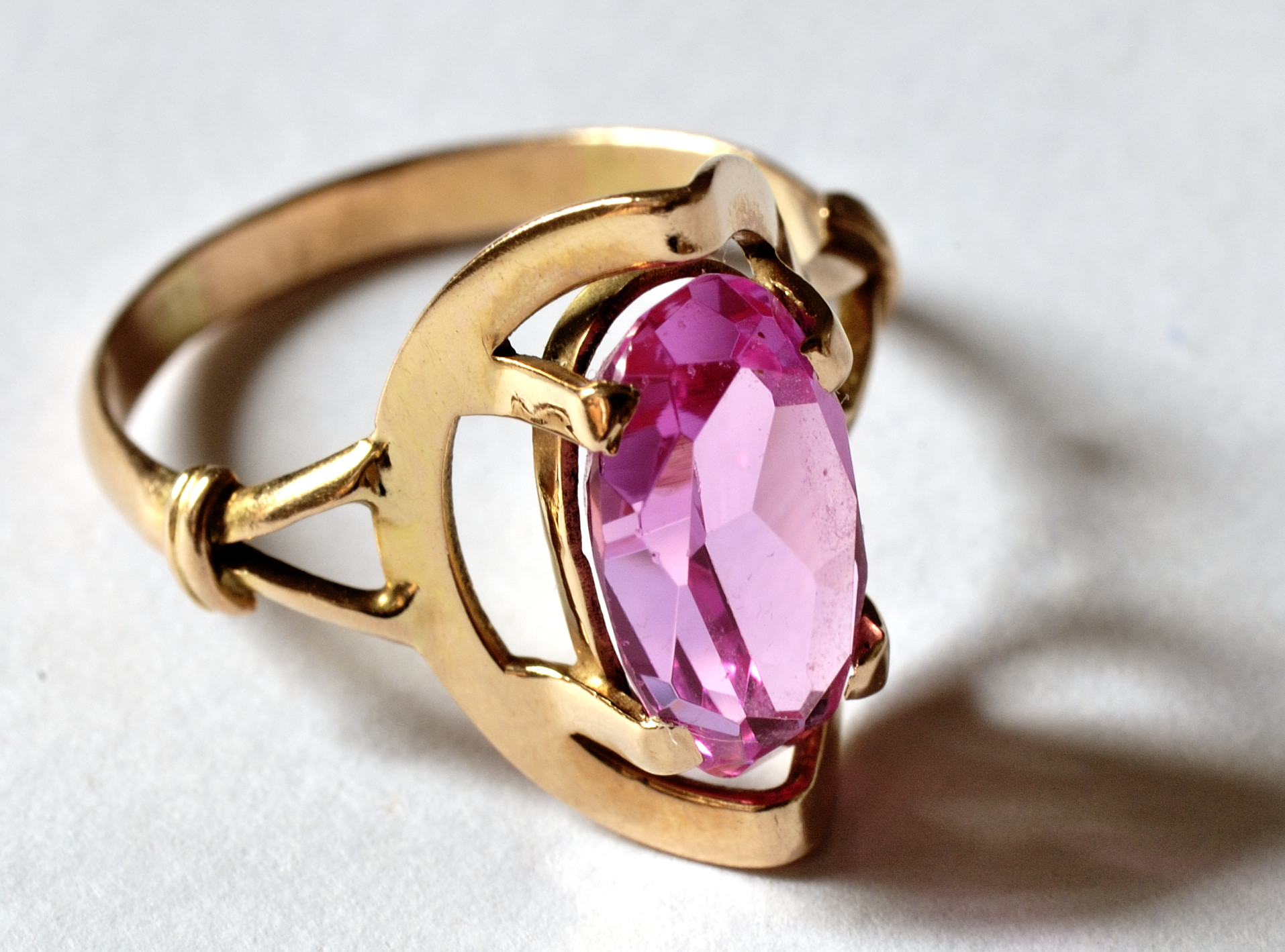 Tourmaline ring